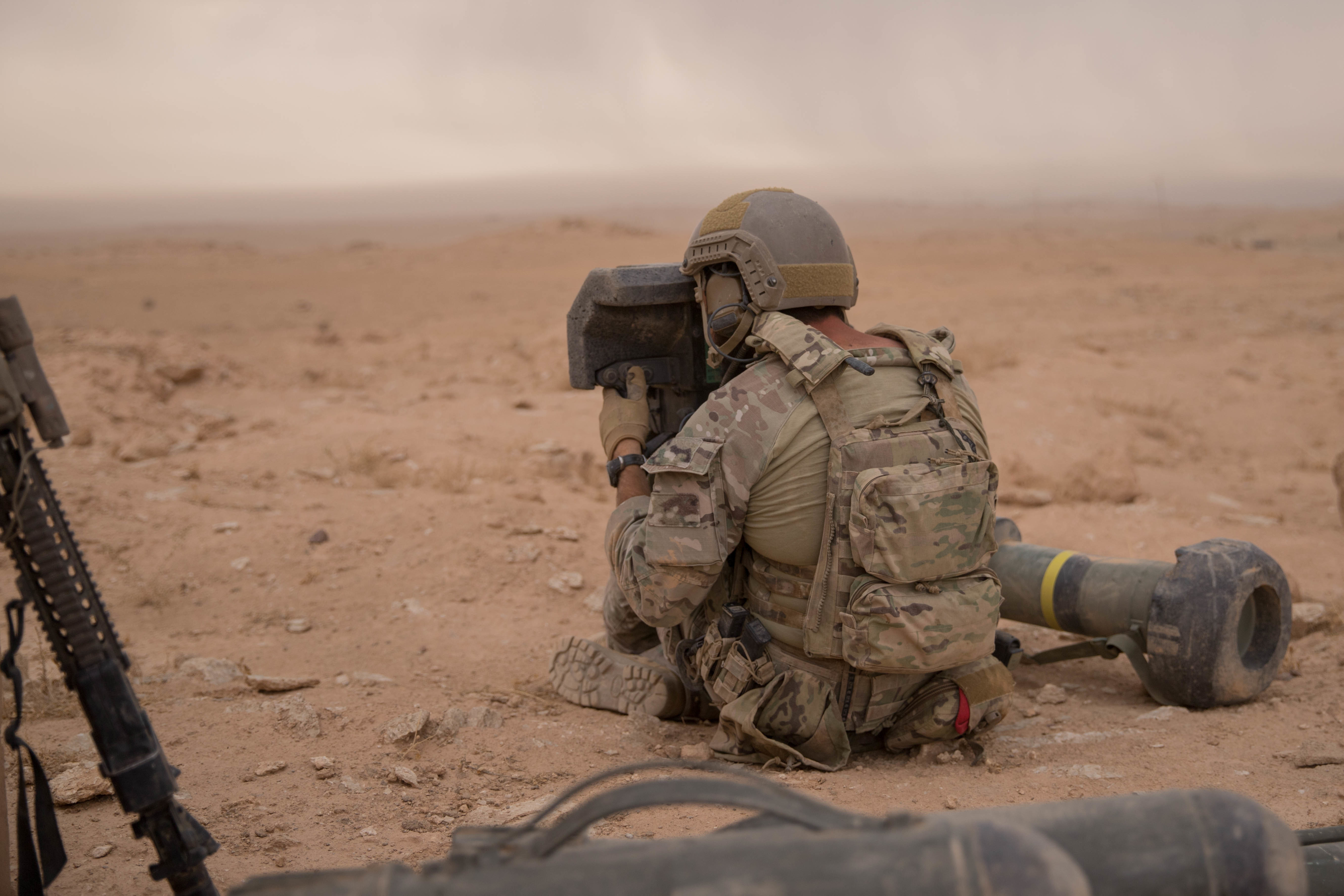 Special Forces (United States Army) soldier using the Javelin CLU to spot ISIL targets in Syria